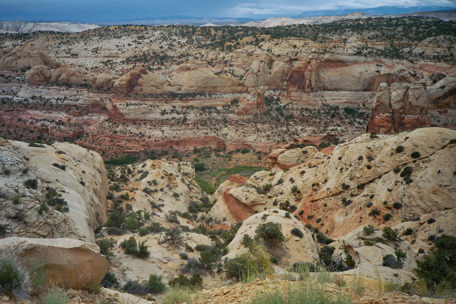 Garfield county SR12 south Photo taken by myself in June 2005 author:R.Blauert